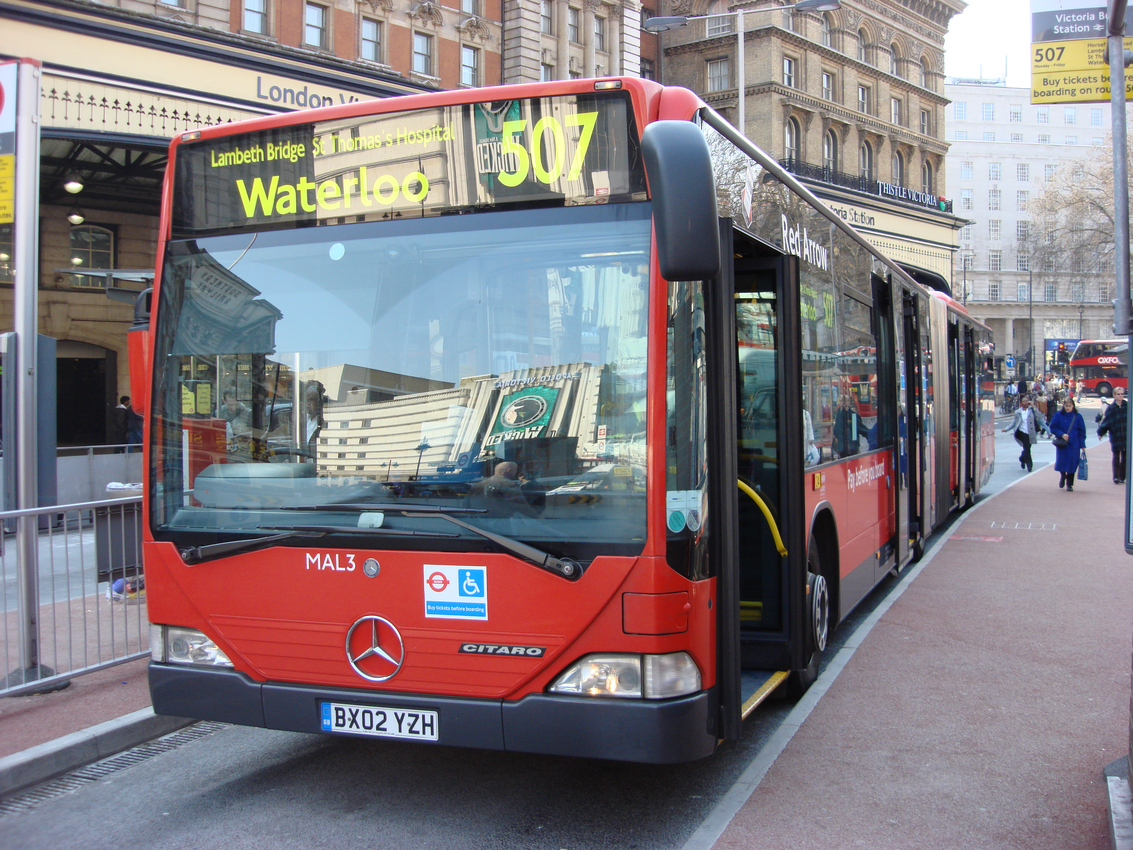 A Mercedes Citaro articulated bus at Victoria bus station in London